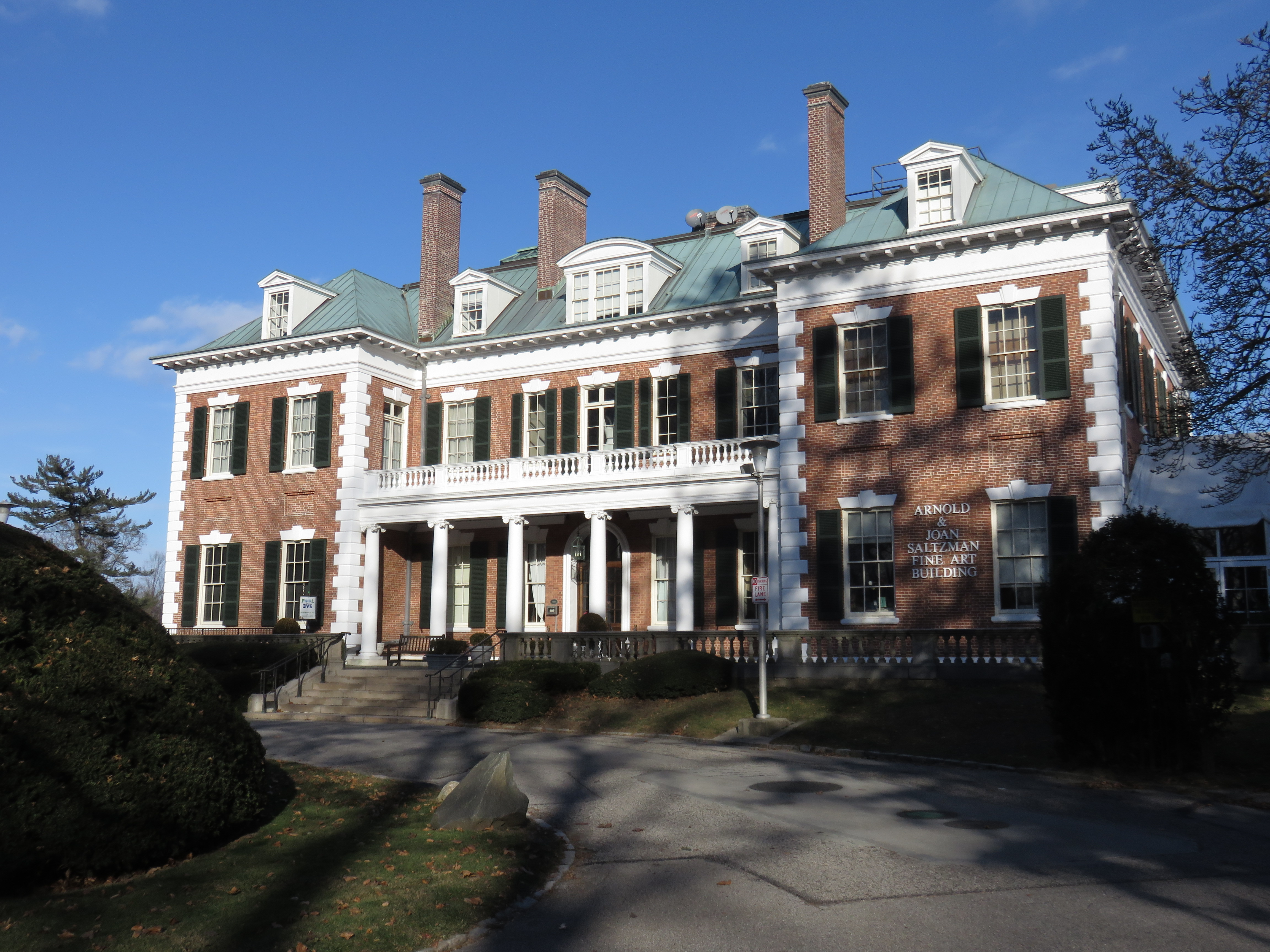 Nassau County Museum of Art in Roslyn Harbor, New York in 2017